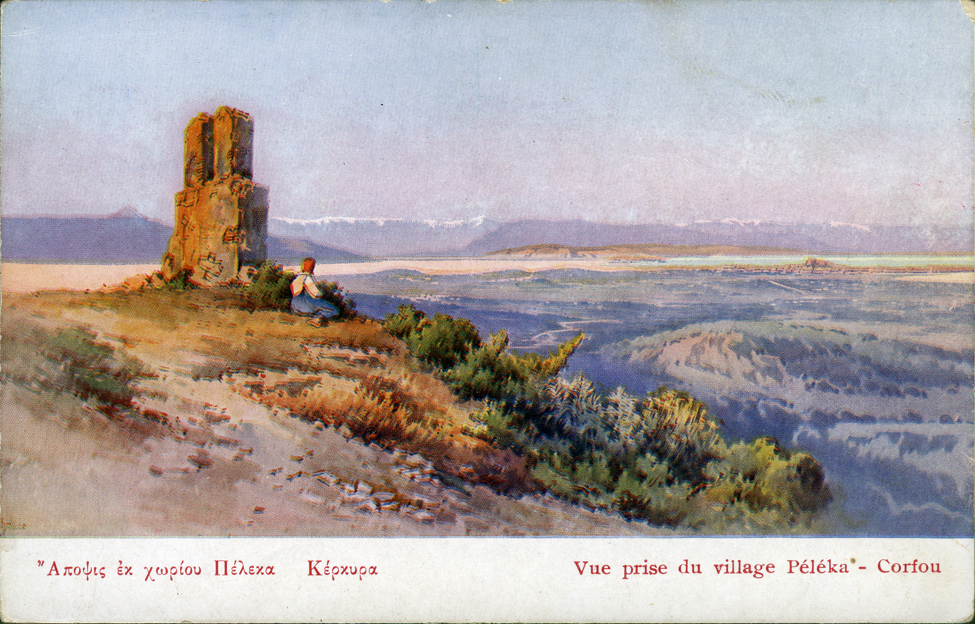 View from the village of Pelekas in Corfu. Postcard published by Aspiotis. Reproduction of a painting by Angelos Giallinas.